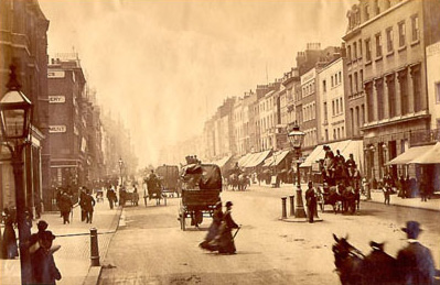 Oxford Street in 1875, looking west from the junction with Duke Street. The buildings in the right are on the future site of Selfridges.